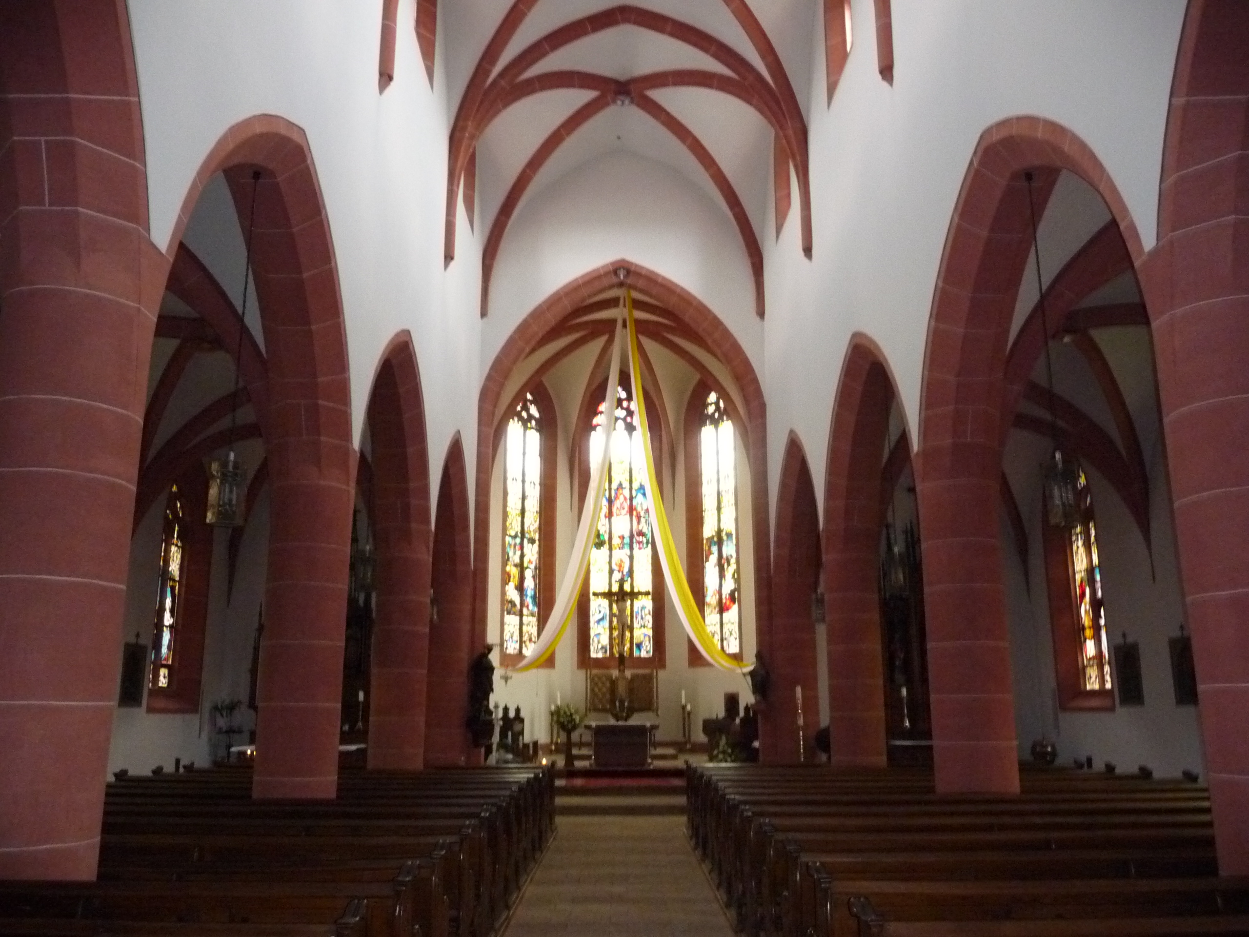 St. Ulrich (Deidesheim)